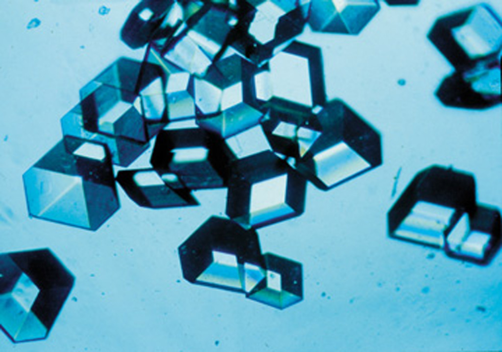 Insulin crystals, from NASA's website.